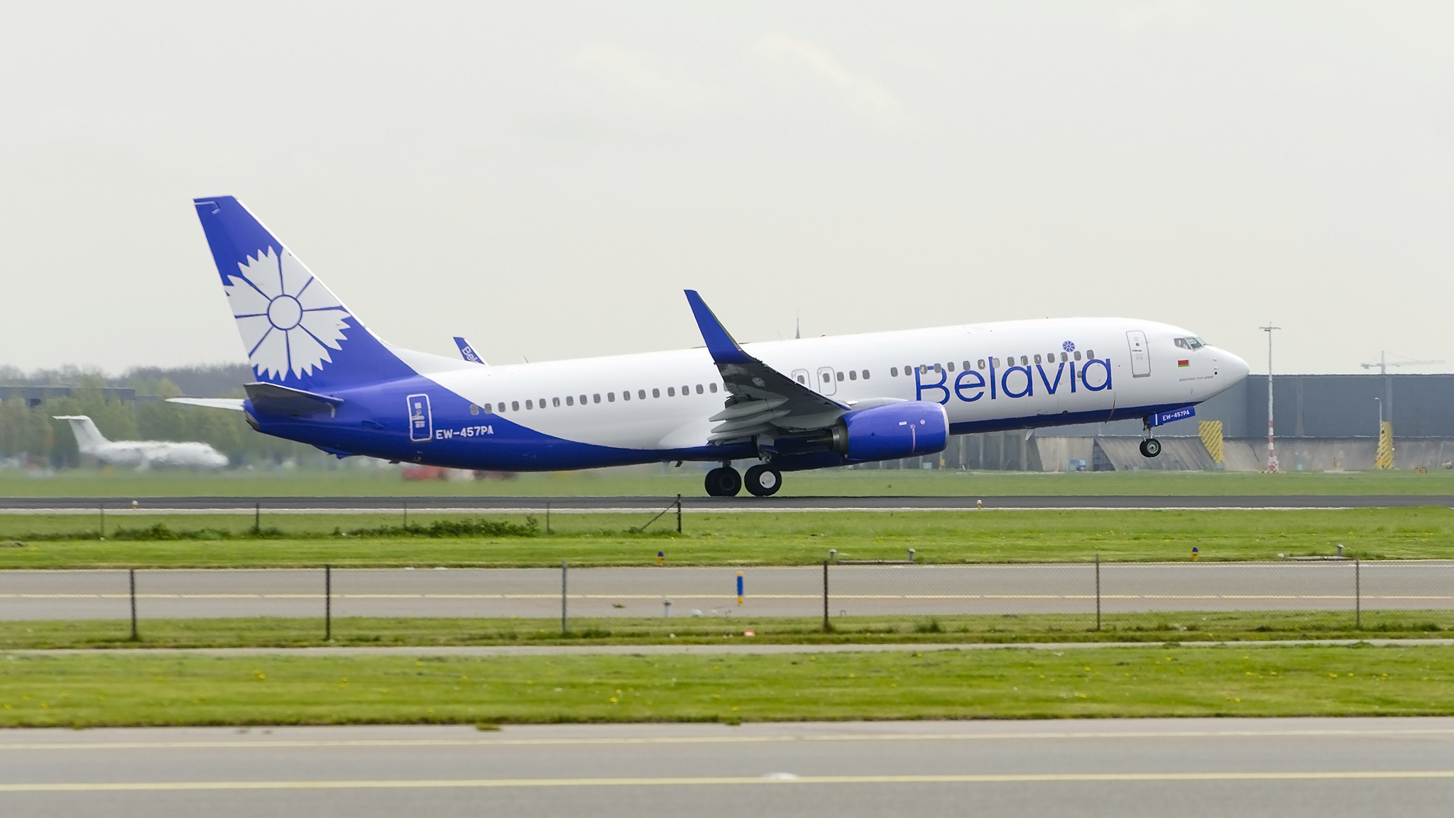 Boeing 737-800 of Belavia in new livery at Amsterdam Airport Schiphol